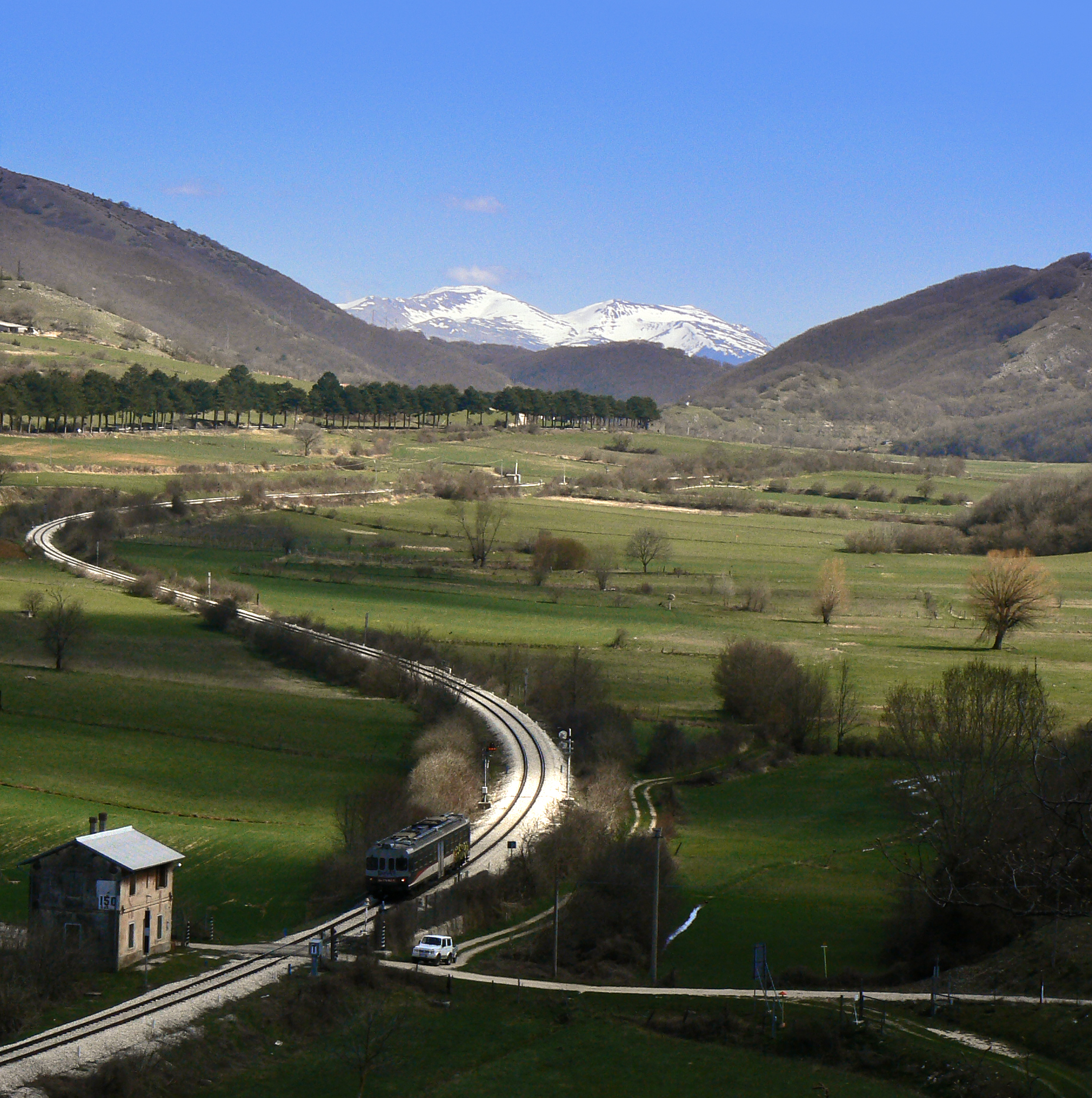 View of Sella di Corno plateau, in the point where lies the border between Lazio and Abruzzo, Italy. The tree-lined street at left is state highway n. 17, while on foreground Terni-Rieti-L'Aquila railway can be seen (trait between Rocca di Corno station and Sella di Corno station, which is the highest point of the line at 989 metres on the sea level) with a level crossing without barriers and a watchman's house indicating the kilometer 150, with an ALn 776 class diesel multiple unit owned by Ferrovia Centrale Umbra passing through.